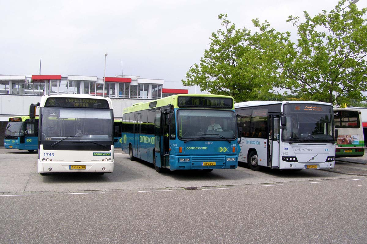 Connexxion buses in the Netherlands. From left to right: Berkhof Ambassador 200 (reg. BN-NV-98, #1743, built 2003), Den Oudsten B95 (reg. BH-VN-34, #2483, built 1999), and Volvo 8700 LE (#3548, built 2005).